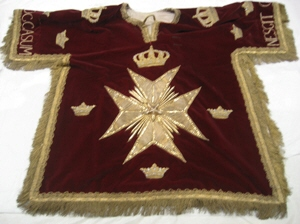 Tabard of the Order of the Polar Star. Belongs to the collections of the Royal Armoury of Sweden